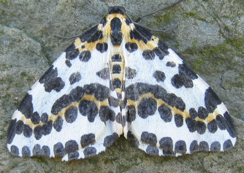 Abraxas grossulariata. Picture made on mainland, Orkney, 2004, by Tim Bekaert.